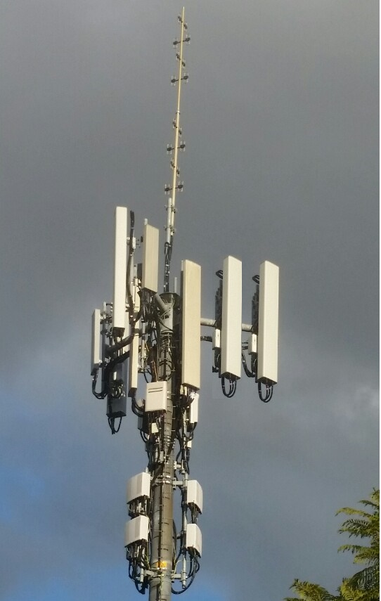 Cellular mobile Antenna and Dipole Antenna - away view